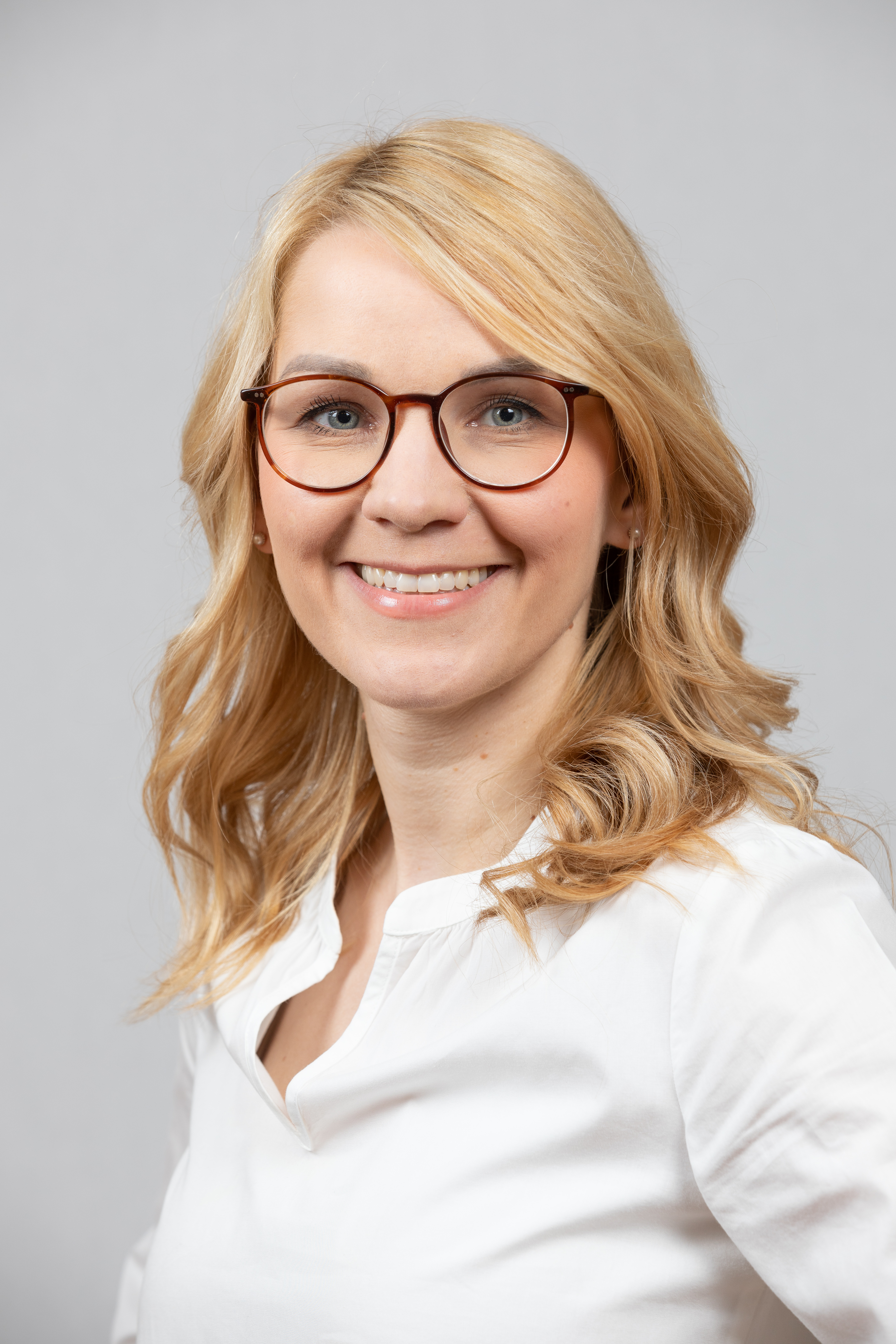 Wiebke Knell, Landtag of Hesse, Wiesbaden, April 3rd, 2019